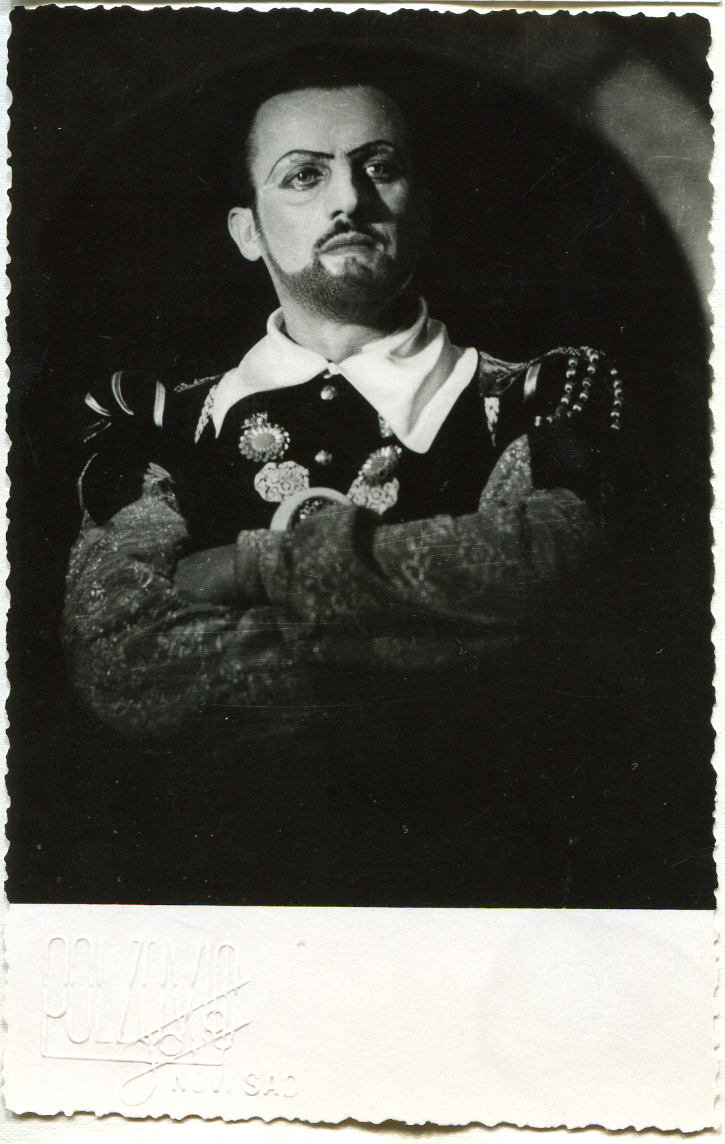 Vlada Popović as the Count di Luna in Il trovatore by Giuseppe Verdi, 1952, Photo by Jovan Polzović